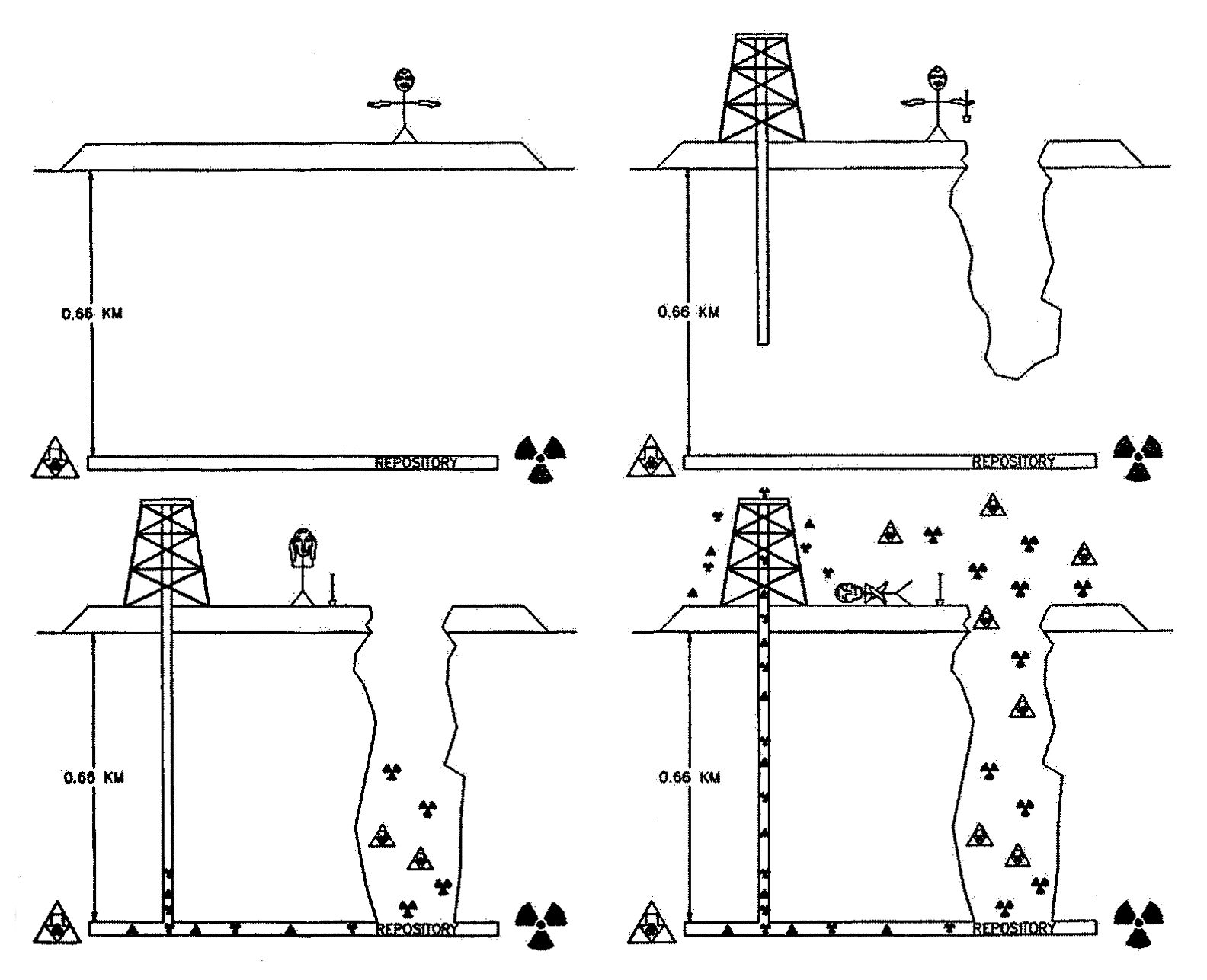 Pictrogramm intended to demonstrate the dangers at a nuclear waste burial site